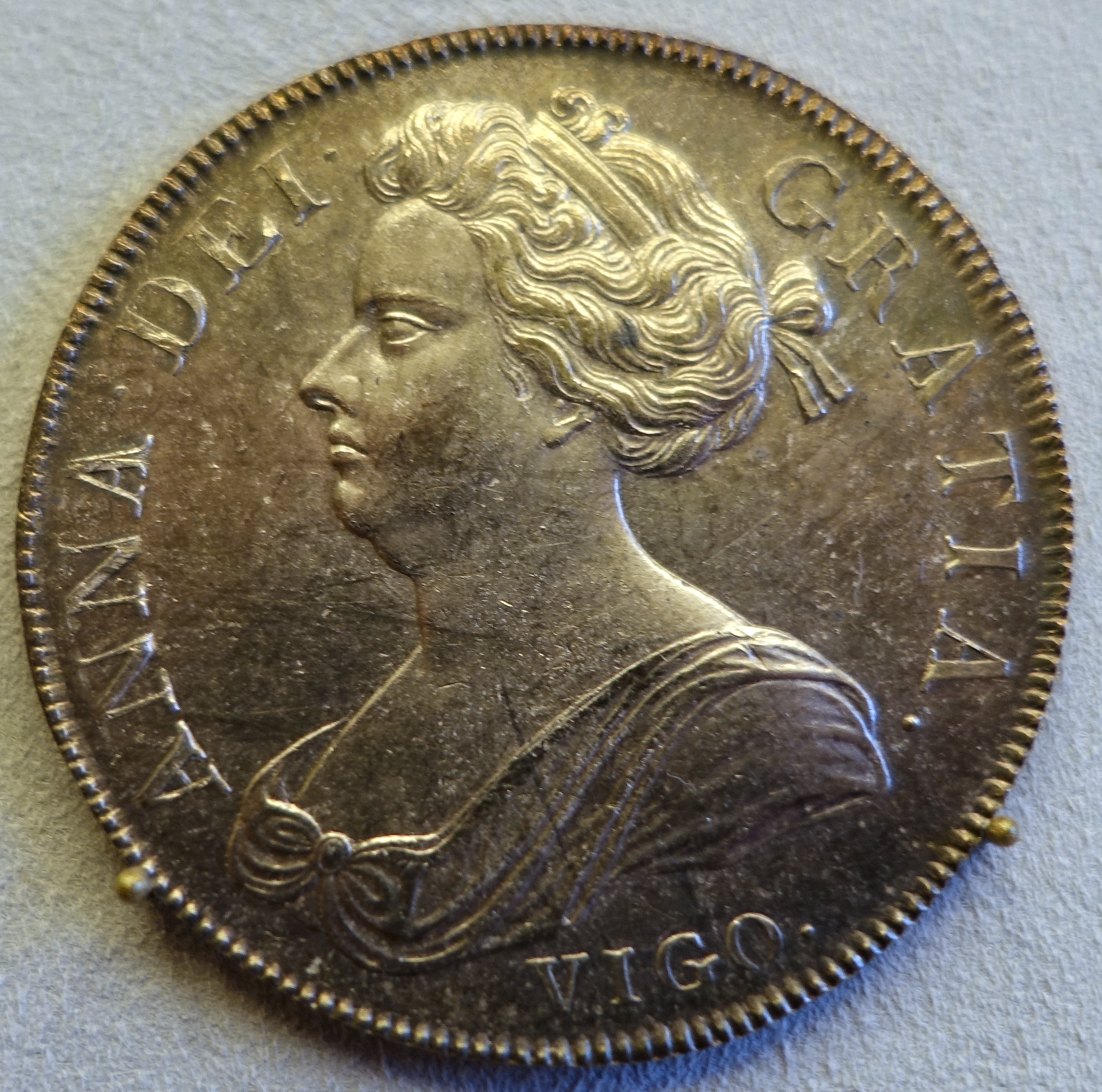 Exhibit in the Bode-Museum, Berlin, Germany. This work is in the public domain because the artist died more than 100 years ago.